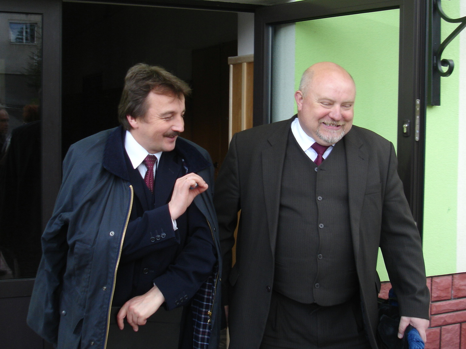 Piotr Błażejowski vogt of Bukowsko (right side), and prof. Wacław Wierzbianiec, Bukowsko, 28 April 2007